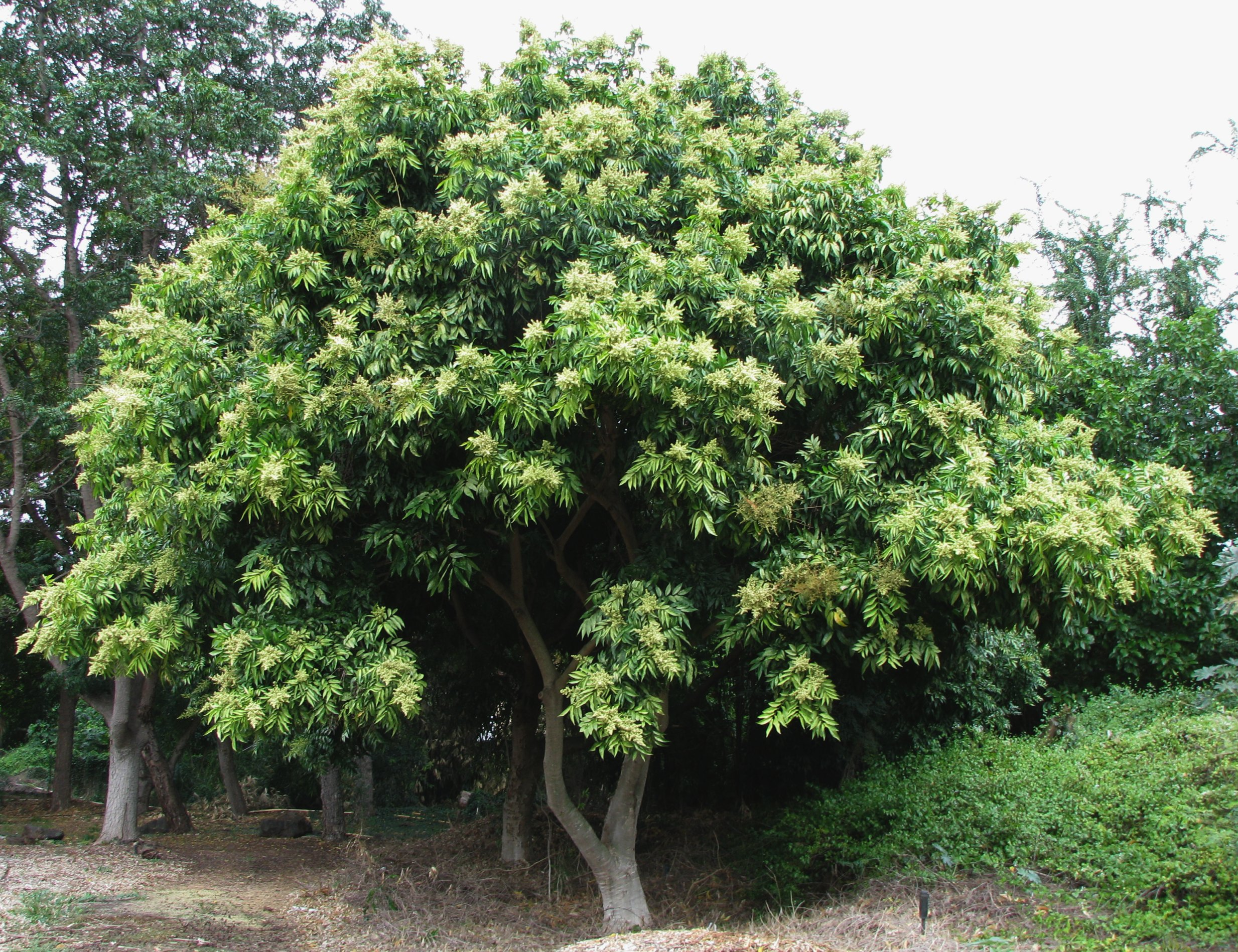 Mānele, Aʻe, or Soapberry Sapindaceae Indigenous to the Hawaiian Islands (Hawaiʻi Island only) Oʻahu (Cultivated) NPH00013